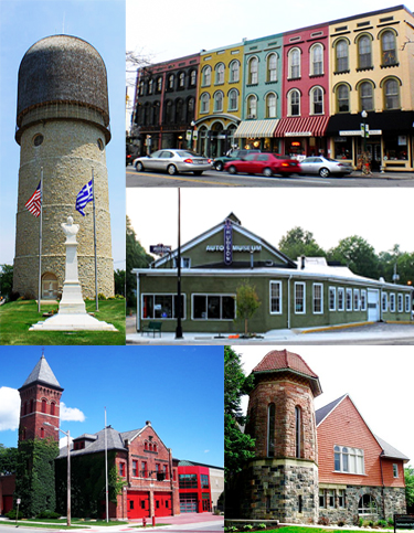 Montage of Ypsilanti Buildings